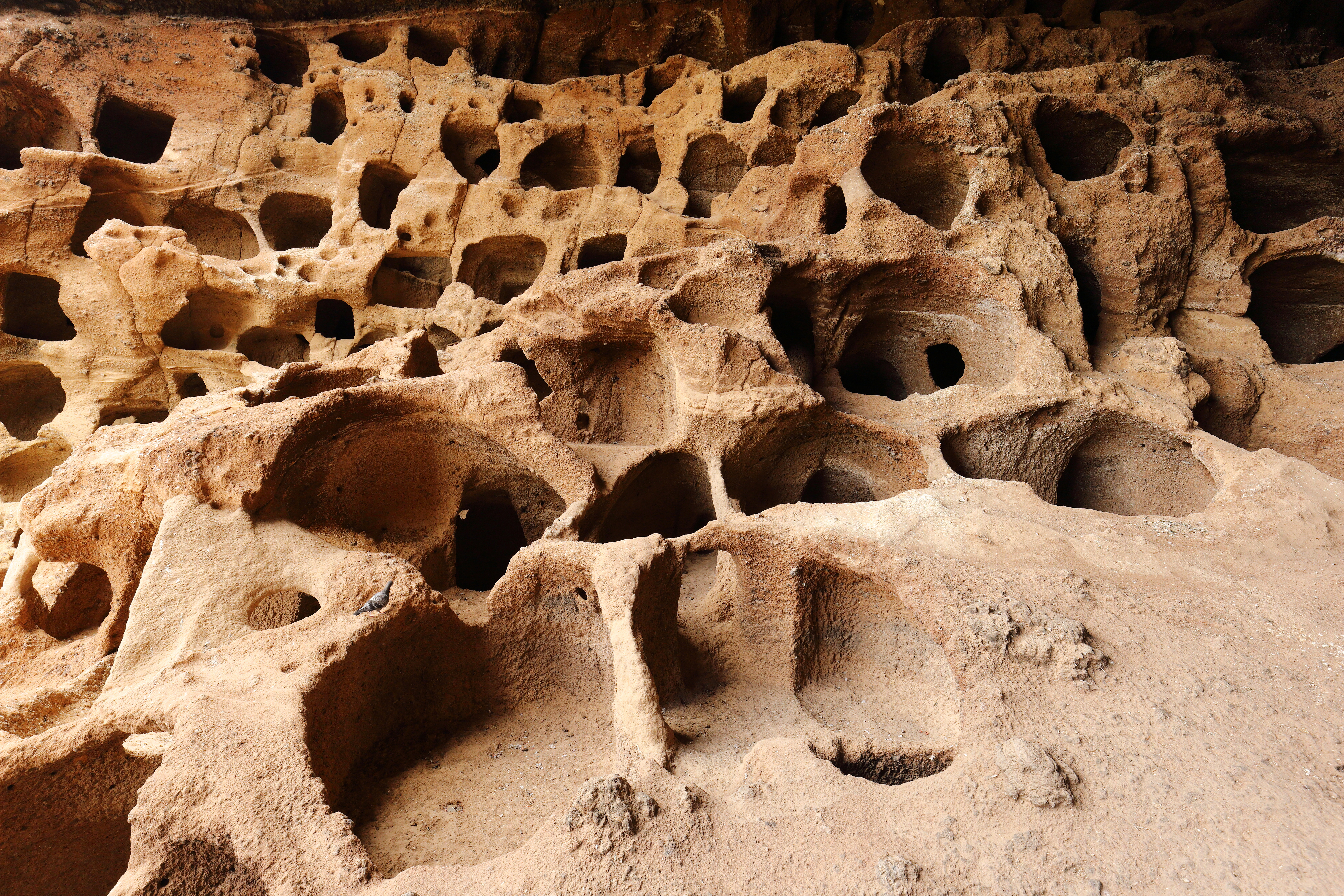 "Valerón’s "monastery" (in Spanish Cenobio de Valerón) is an archaeological site on the Spanish island of Grand Canaria, in the municipality of Santa Maria de Guia.